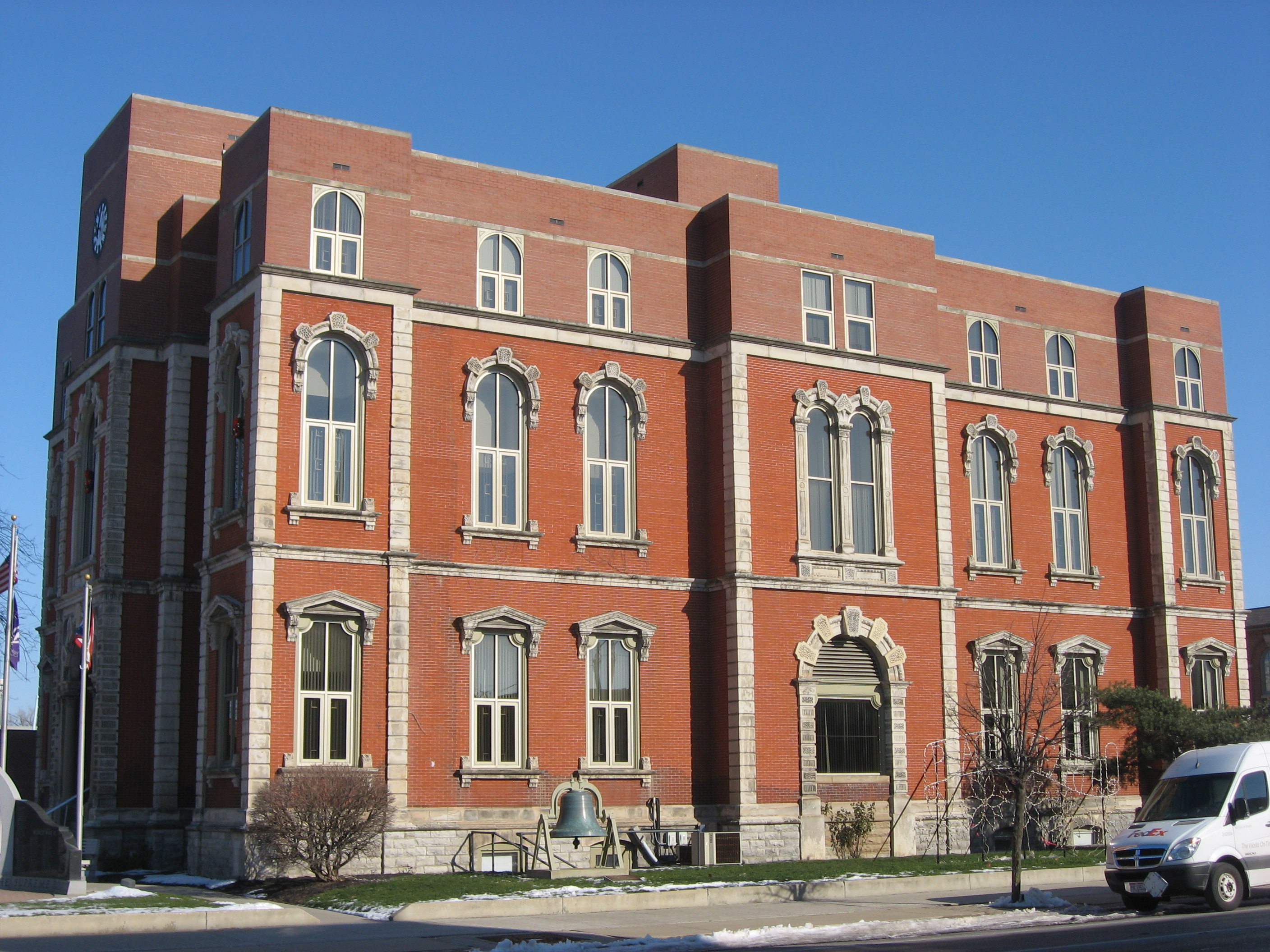 Southern side and front of the Defiance County Courthouse, located at 221 Clinton Street in Defiance, Ohio, United States.